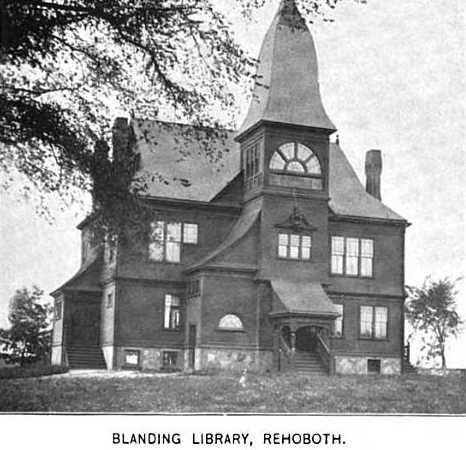 Public library, Massachusetts